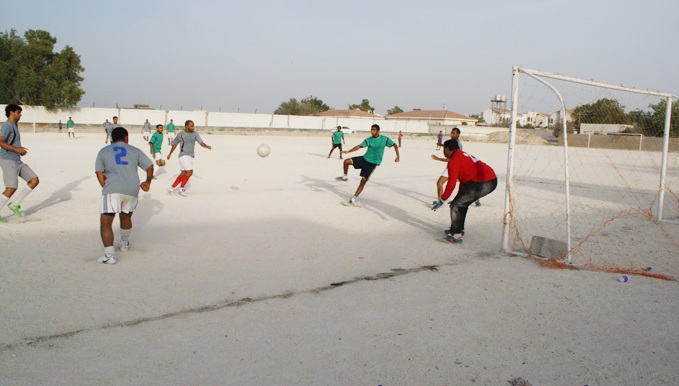 Almarkh Football